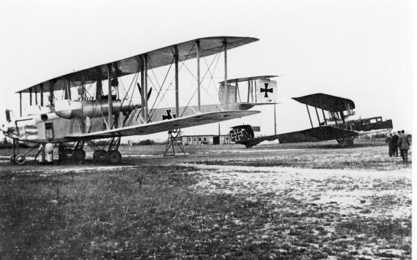 PictionID:43638871 - Catalog:16_004636 - Title:Zeppelin-Staaken R III and R VI - Filename:16_004636.TIF - - - - - - - Image from the Ray Wagner Collection. Ray Wagner was Archivist at the San Diego Air and Space Museum for several years and is an author of several books on aviation --- ---Please Tag these images so that the information can be permanently stored with the digital file.---Repository: San Diego Air and Space Museum